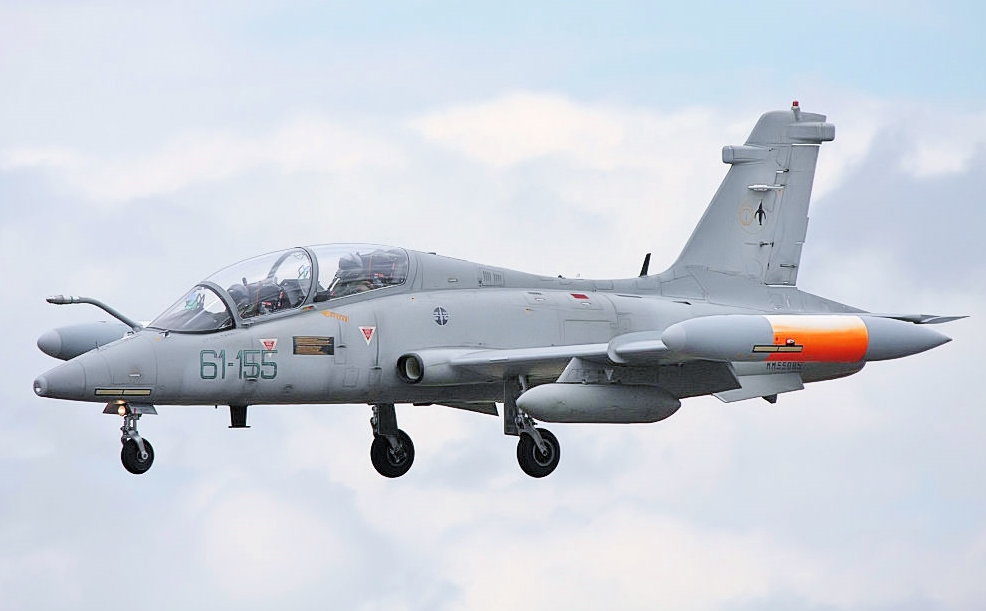 MB339 - RIAT 2008